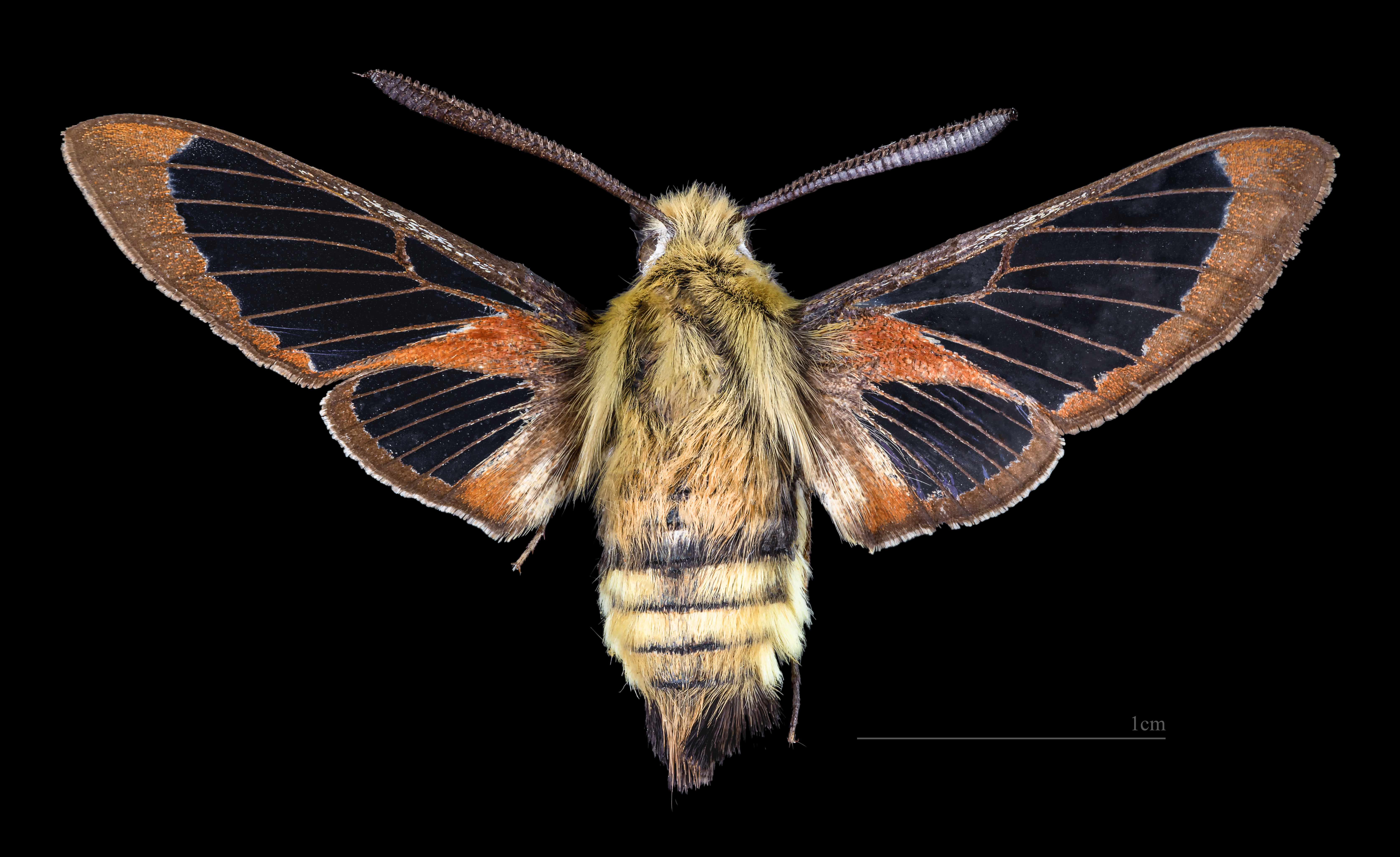 Hemaris thetis - Dorsal sid Collection of the Mathematician Laurent Schwartz